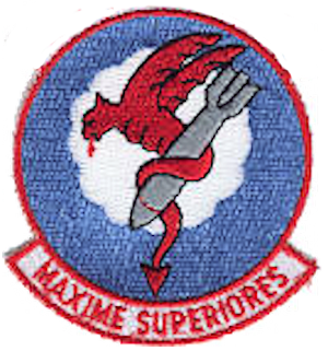 Emblem of the 447th Bombardment Squadron (SAC)